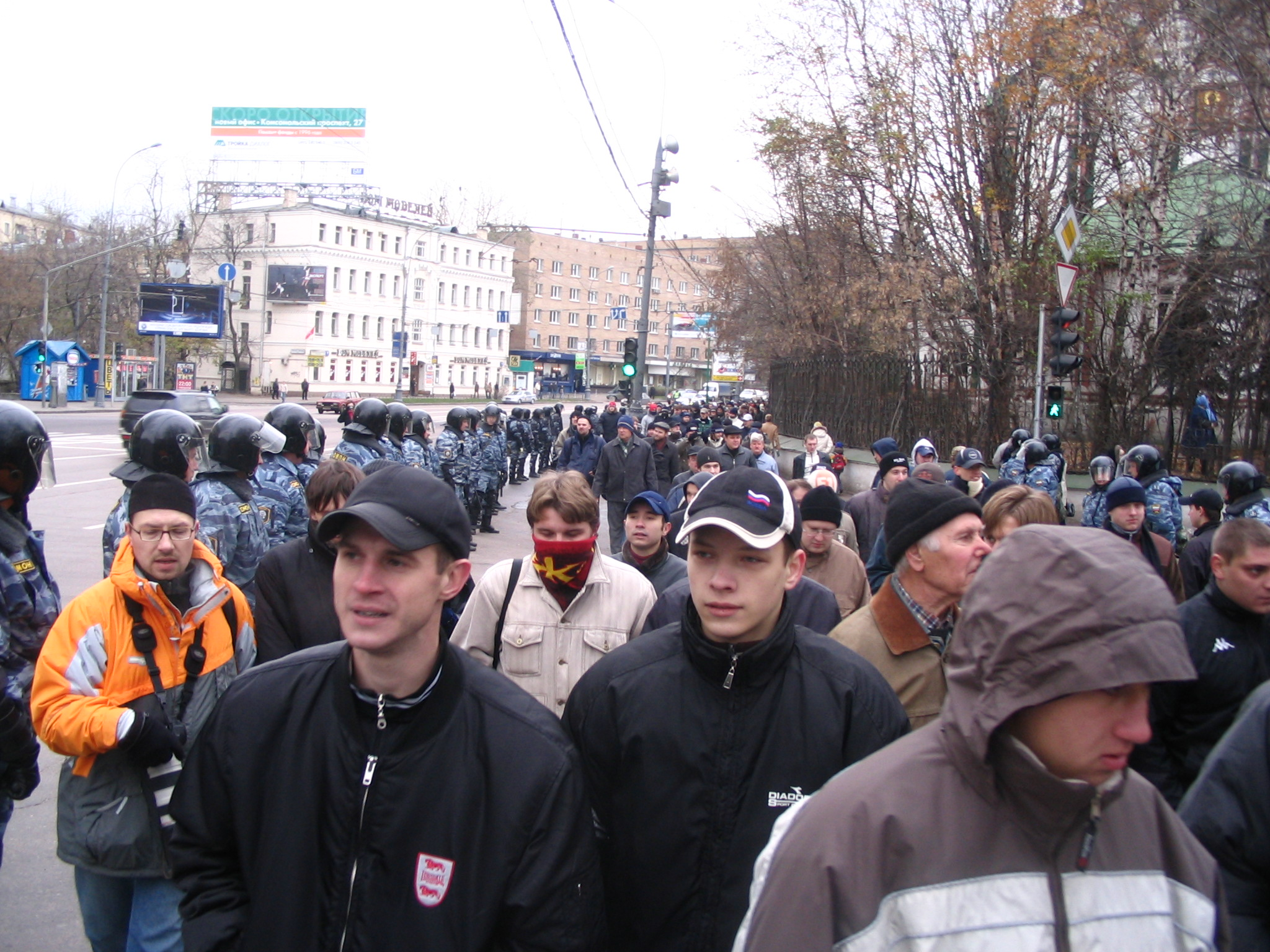 Moscow, Russian March 2006. A glance from within: walking several hundred meters within two lines of heavily armed riot police feels... amusing